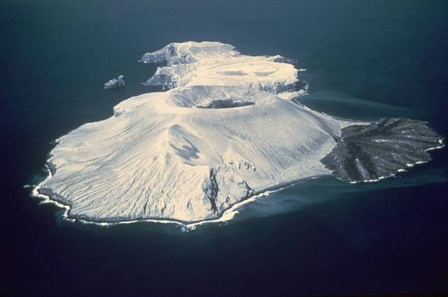 Aerial view of San Benedicto Island, Revillagigedo Islands, Mexico